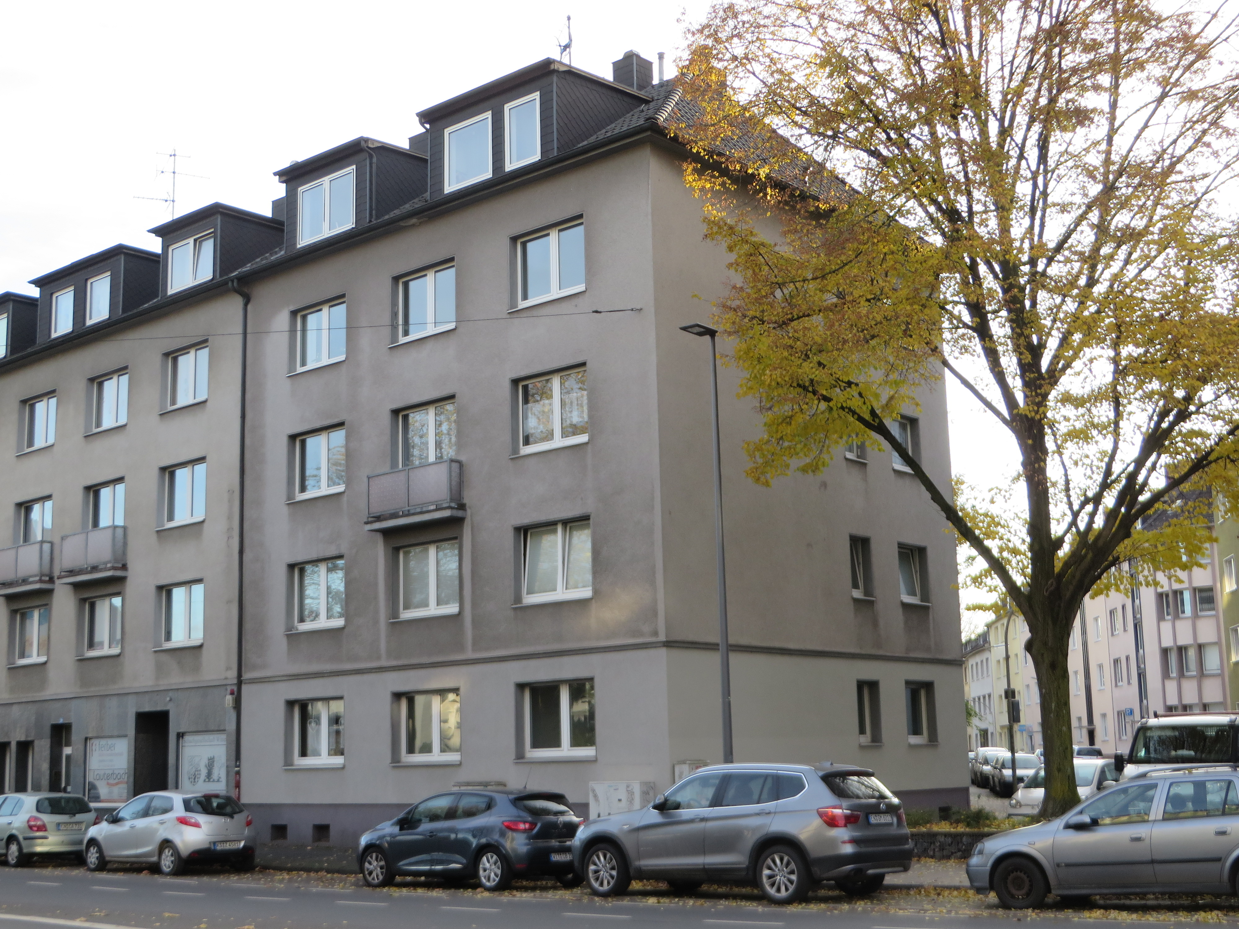 House Lutherstraße 34 in Witten, Germany